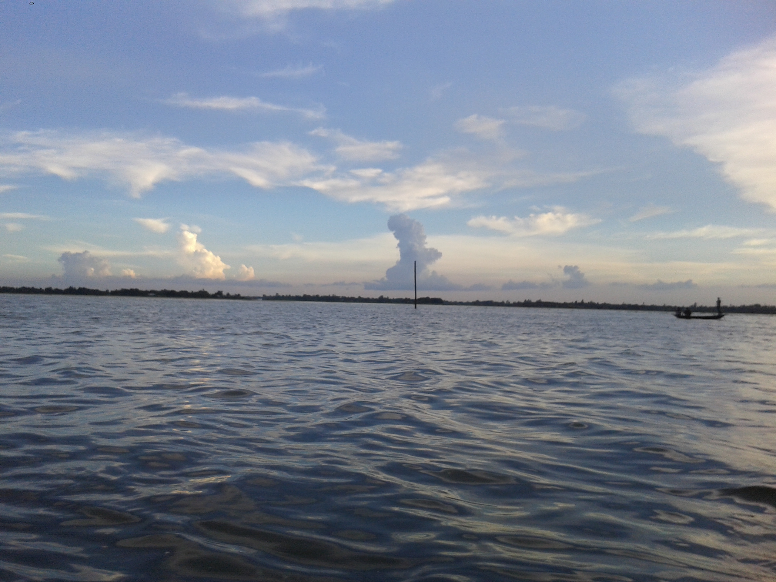 This is tha picture of gazna bil sujanagar pabna.